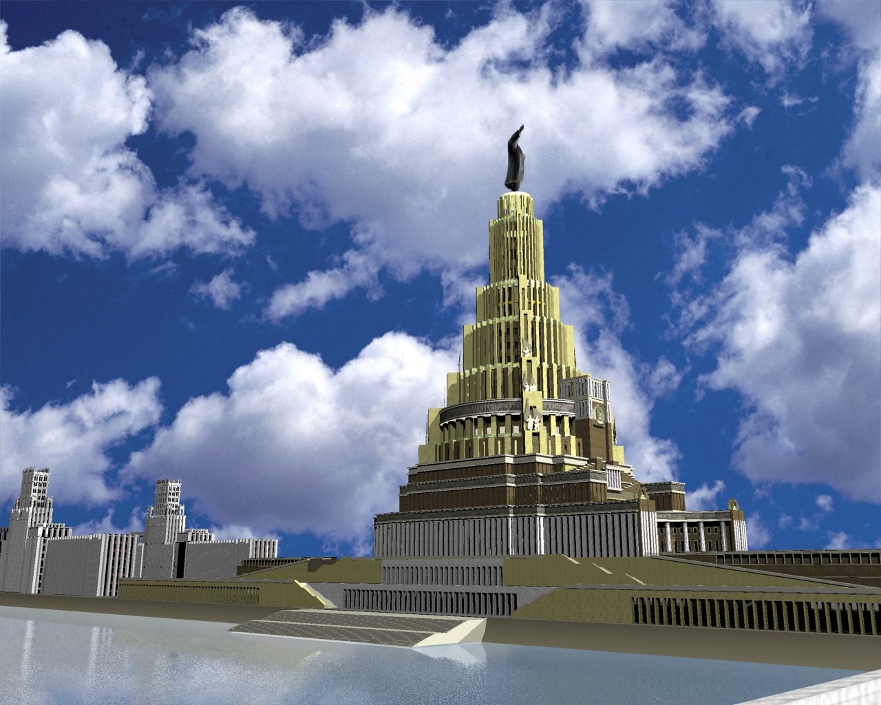 Palace Of Soviets the Soviet Union, (done in 3D Max)